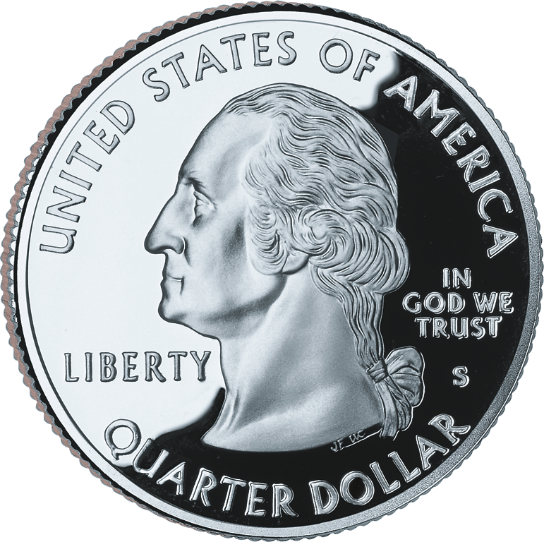 Removed background, cropped, and converted to PNG with Macromedia Fireworks. This image depicts a unit of currency issued by the United States of America. If Fraudulent use of this image is punishable under applicable counterfeiting laws. As listed by the United States Secret Service at money illustrations, the Counterfeit Detection Act of 1992, Public Law 102-550, in Section 411 of Title 31 of the Code of Federal Regulations (31 CFR 411), permits color illustrations of U.S. currency provided:1. The illustration is of a size less than three-fourths or more than one and one-half, in linear dimension, of each part of the item illustrated;2. The illustration is one-sided; and3. All negatives, plates, positives, digitized storage medium, graphic files, magnetic medium, optical storage devices, and any other thing used in the making of the illustration that contain an image of the illustration or any part thereof are destroyed and/or deleted or erased after their final use. Certain coins contain copyrights licensed to the U.S. Mint and owned by third parties or assigned to and owned by the U.S. Mint [1]. For the United States Mint circulating coin design use policy, see [2]; for the policy on the 50 State Quarters, see [3]. Also: COM:ART #Photograph of an old coin found on the Internet